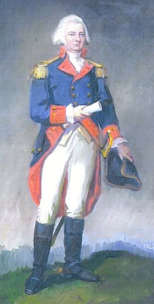 Thomas Hartley, US Representative from Pennsylvania